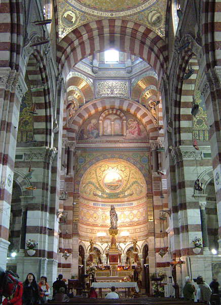 Interior view of Notre Dame de la Garde, Marseille, France